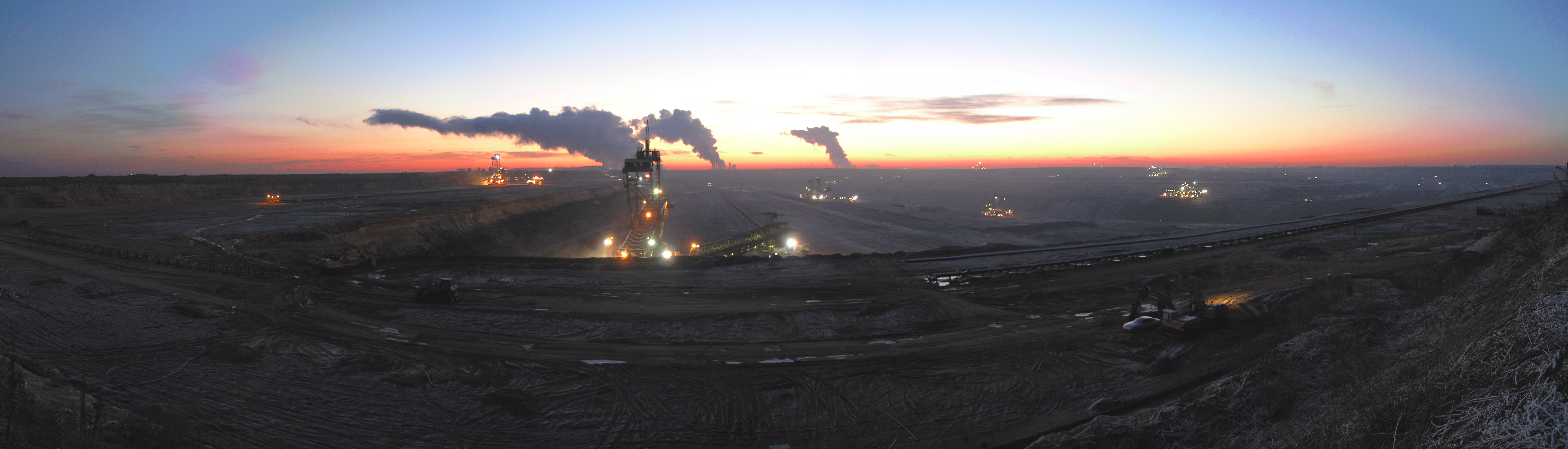 A chilly winter morning. Between Aachen und Duesseldorf coal is mined by the 'Rheinbraun' company with giant machinery. On the horizon you can see the clouds created by the cooling towers of the nearby coal power plants. A similar shot during daytime.